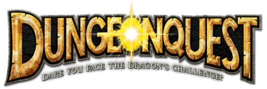 The logotype for the board game DungeonQuest by Fantasy Flight Games.